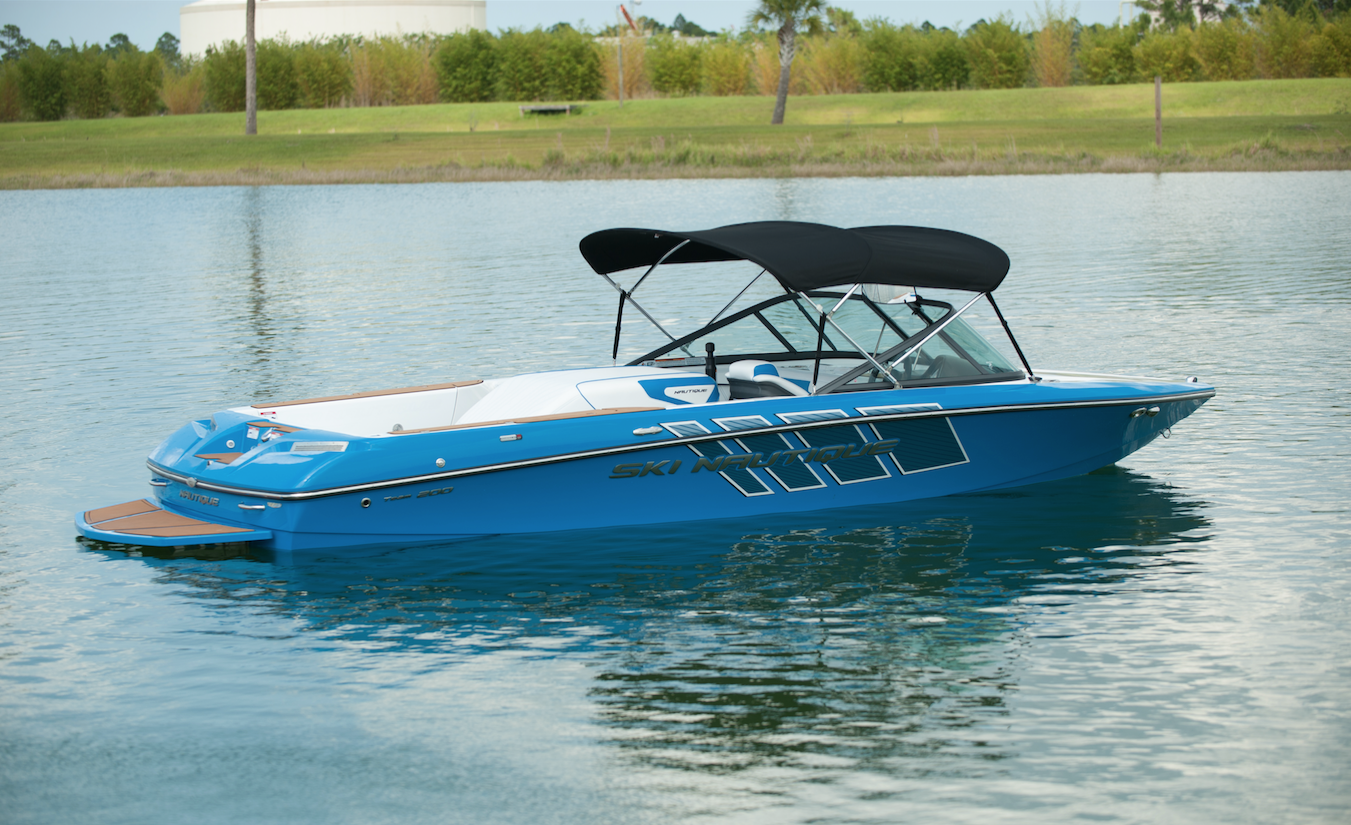 Ski Nautique 200 - CB